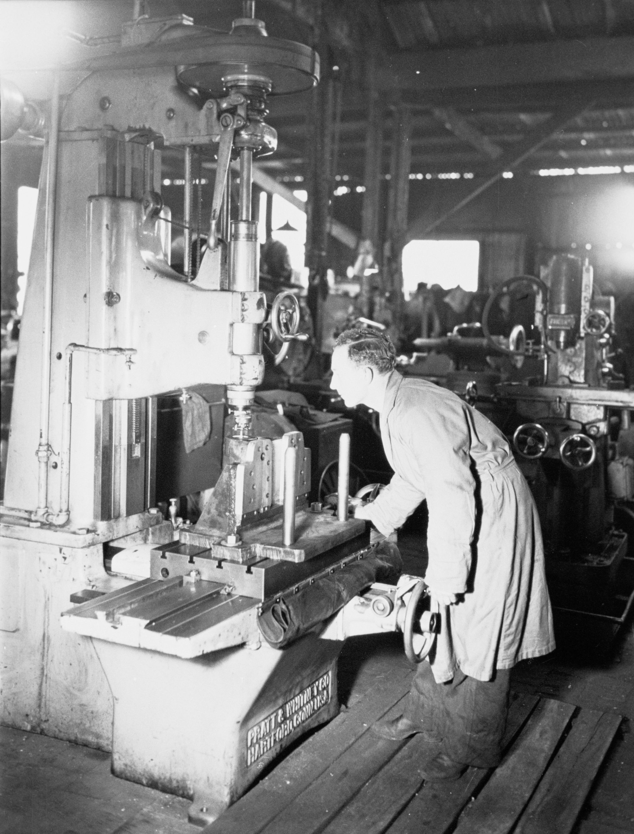 A factory worker at Lightburn & Co using a piece of machinary. The company's products included brick moulds, "Lightning" brand concrete mixers, wheelbarrows, trailers, wheels, hydraulic jacks, washing machines and spin driers. Lightburn began marketing domestic washing machines around 1949. The company had a deserved reputation for unsophisticated, well-made, rugged reliable products, but a later venture, the Zeta automobile, manufactured from 1963 to 1965, was an unmitigated failure.